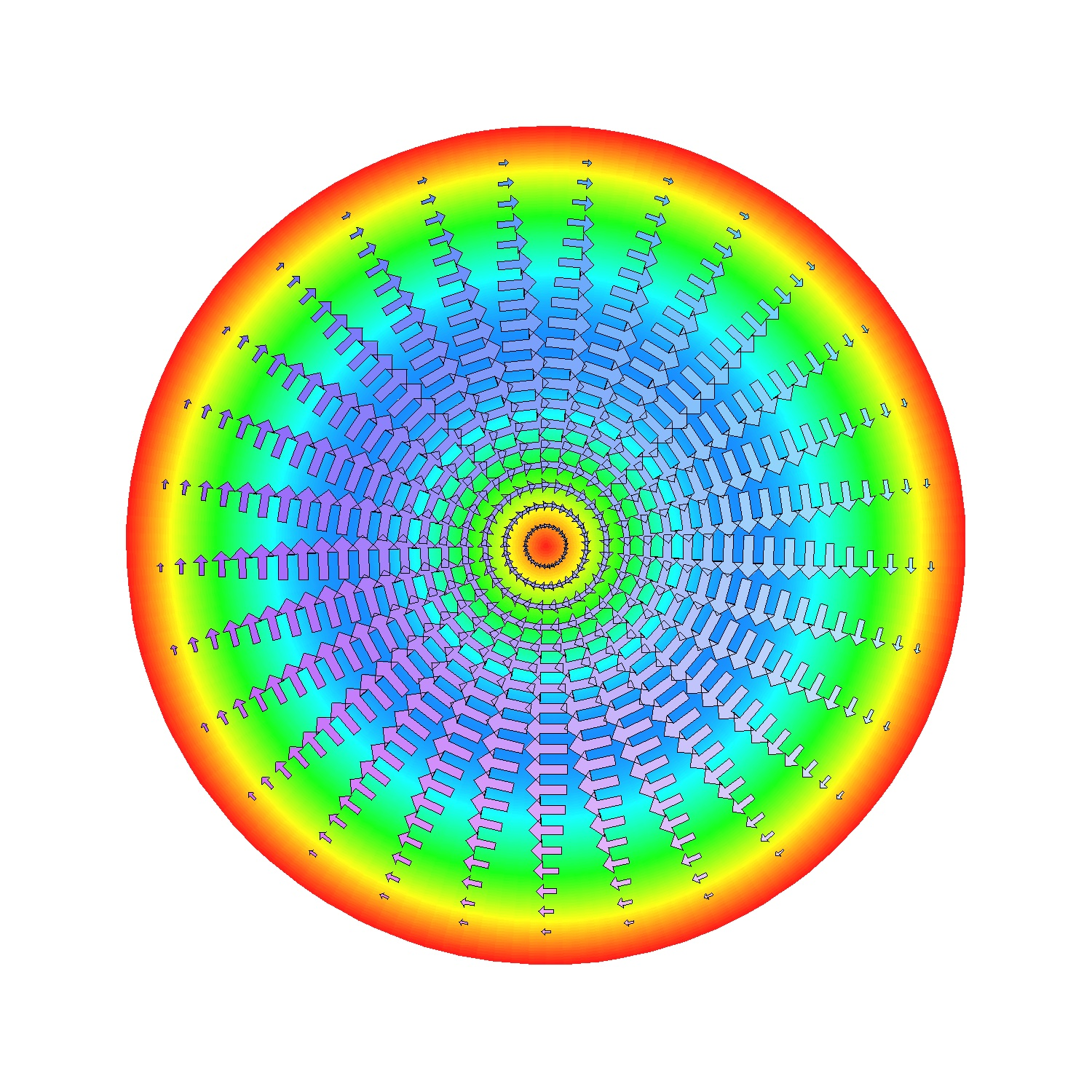 Plot of E and H fields on the TEnl mode defined by n and l.